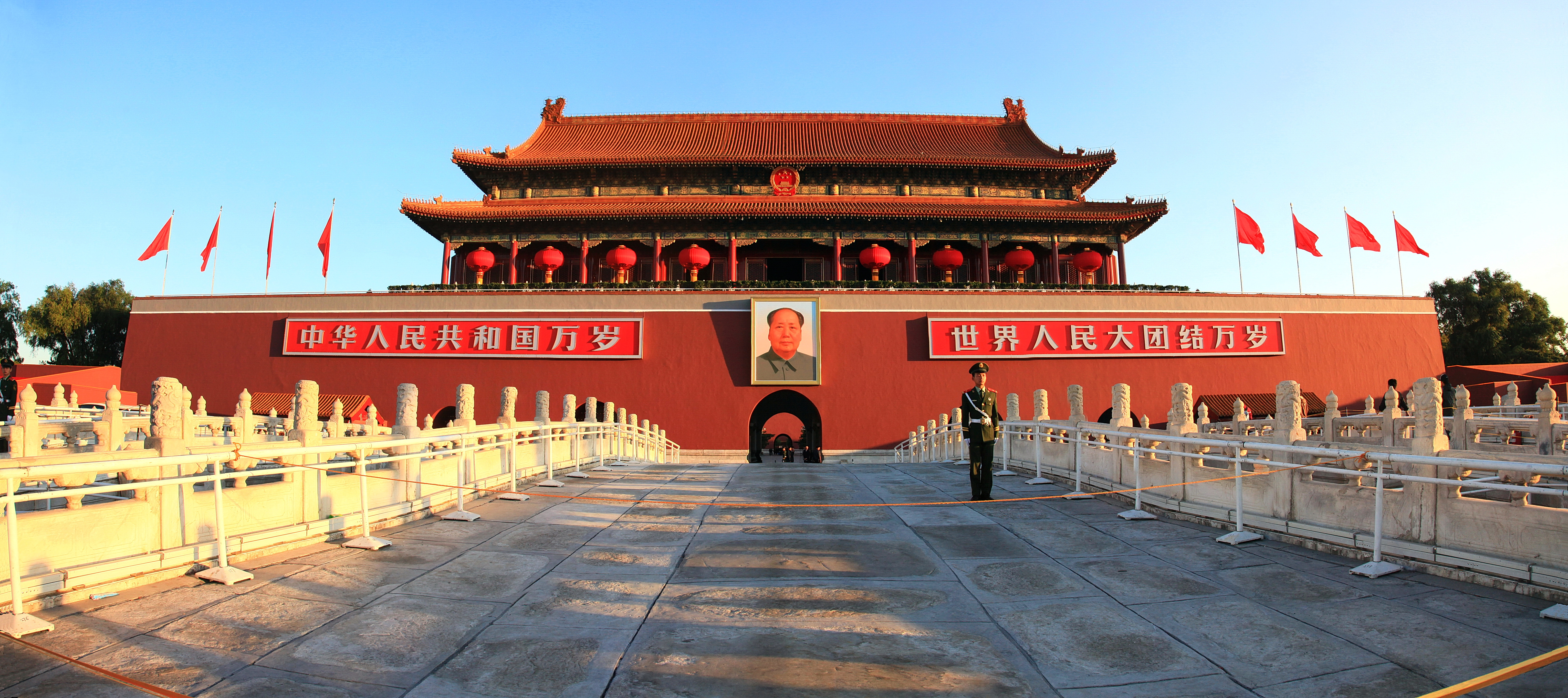 The Tiananmen in Beijing.Photoed on 60th National day 2009.